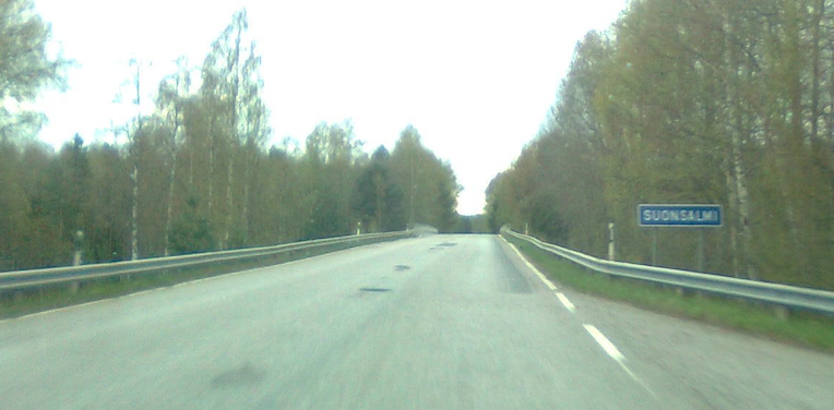 The bridge of Suonsalmi photographed from the eastern side